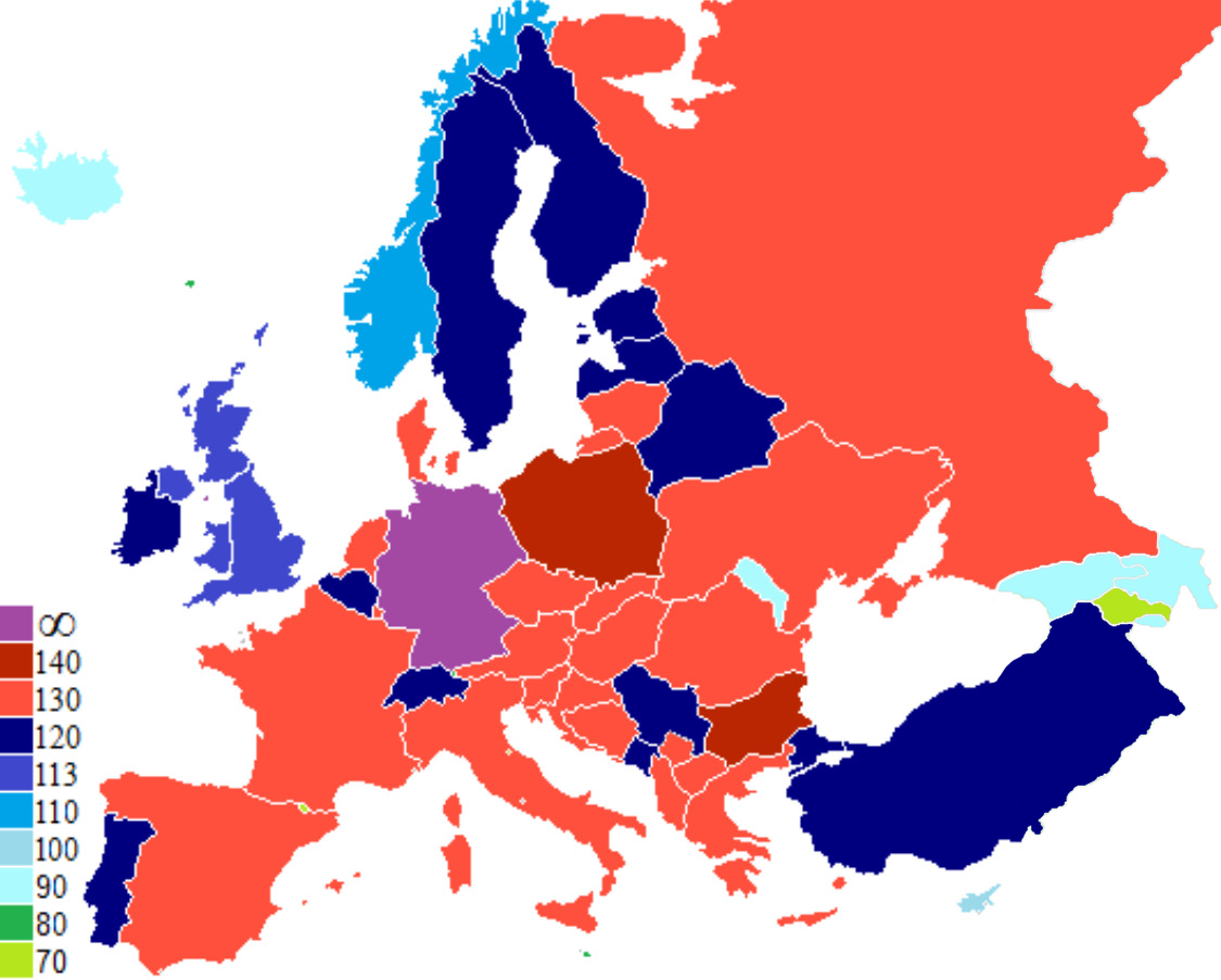 European highway speed limits (in kilometers per hour) by country. Countries without a highway not included.